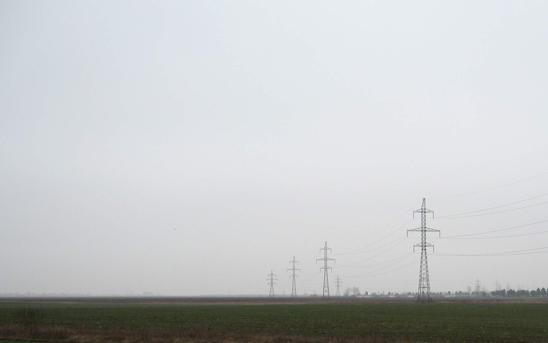 Corn field. I shot the picture in march 2007.